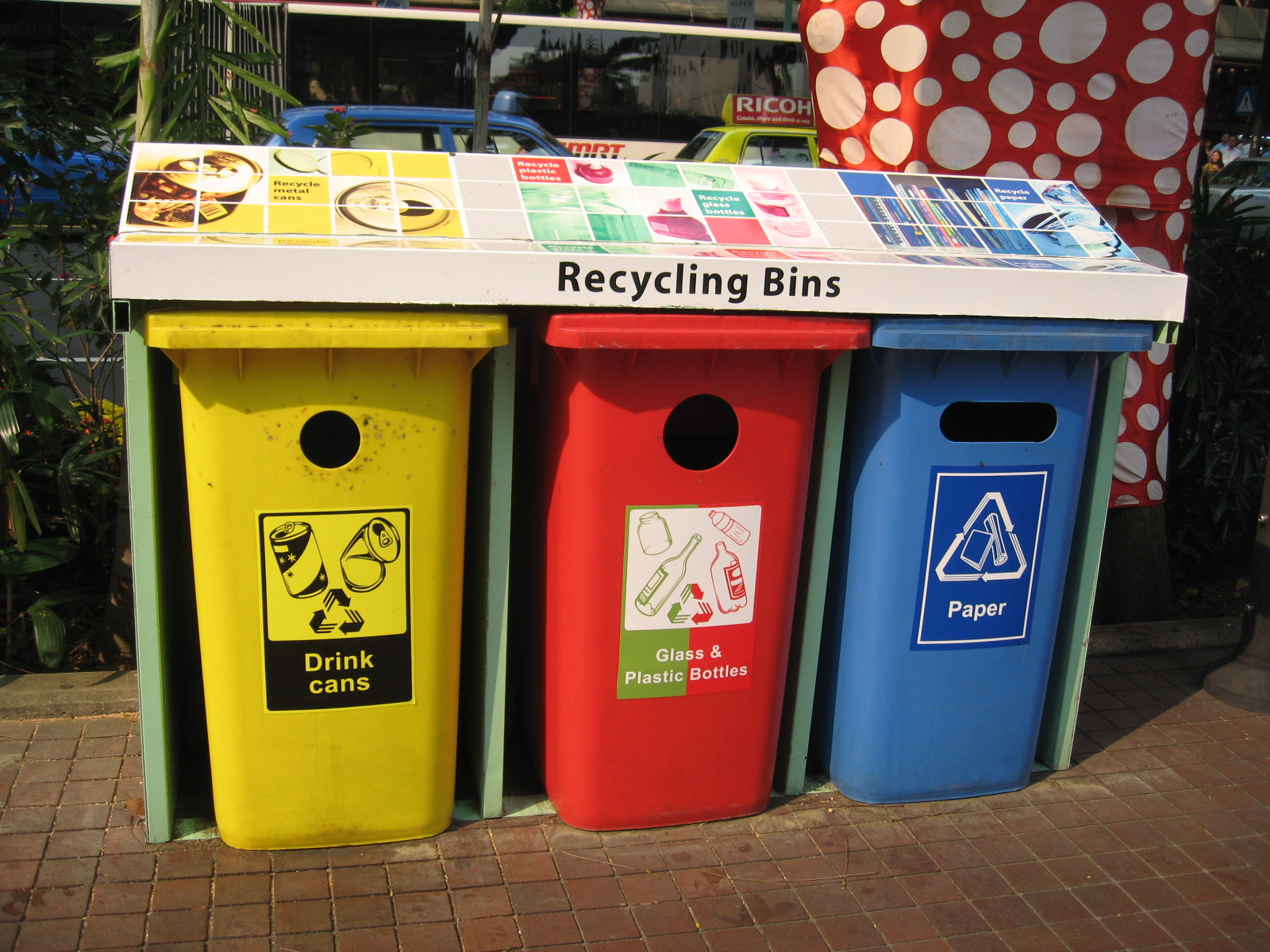 NEA recycling bins along Orchard Road.